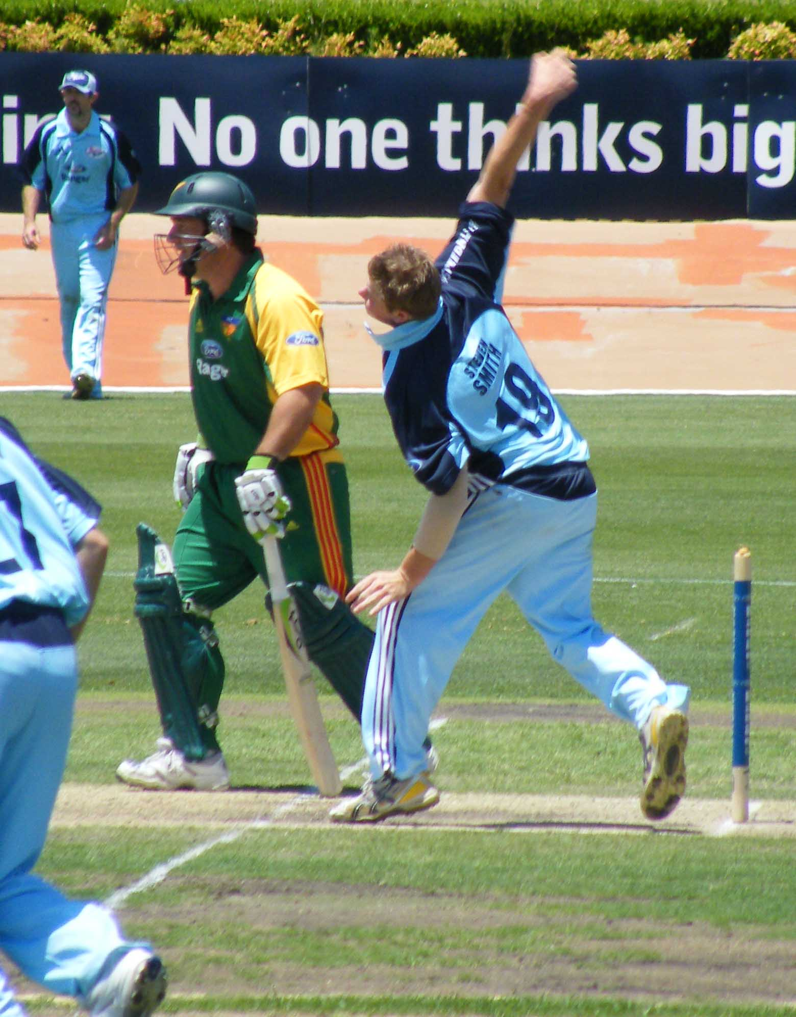 NSW Cricketer Steve Smith - NSW v Tasmania, Hurstville Oval. Saturday 29 November 2008.